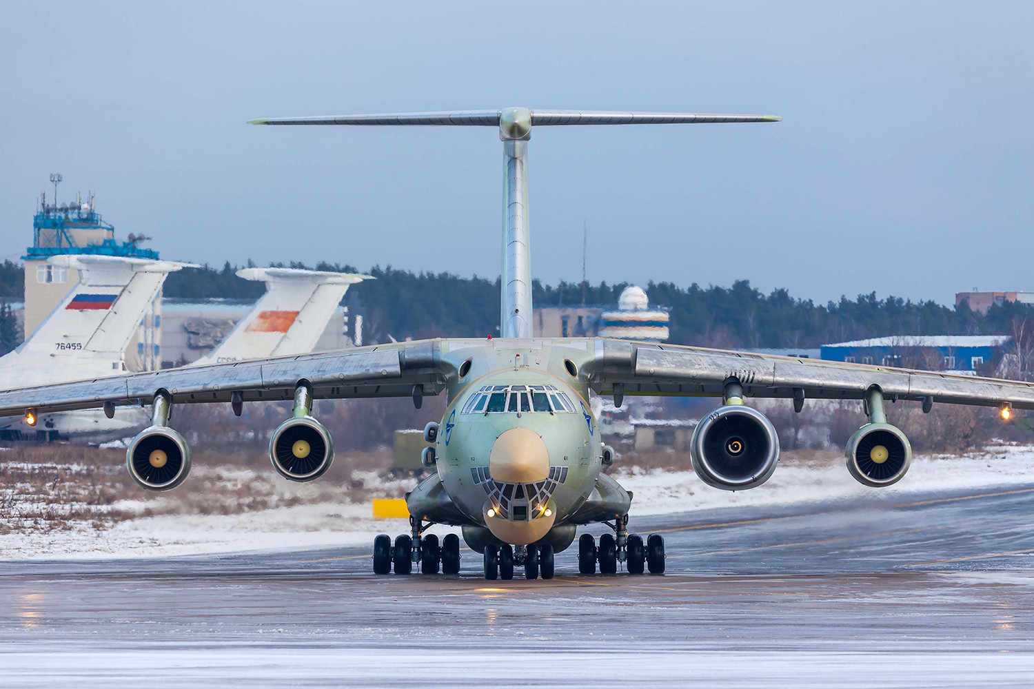 Gromov Flight Test Institute Ilyushin Il-76LL with one Aviadvigatel PD-14 engine